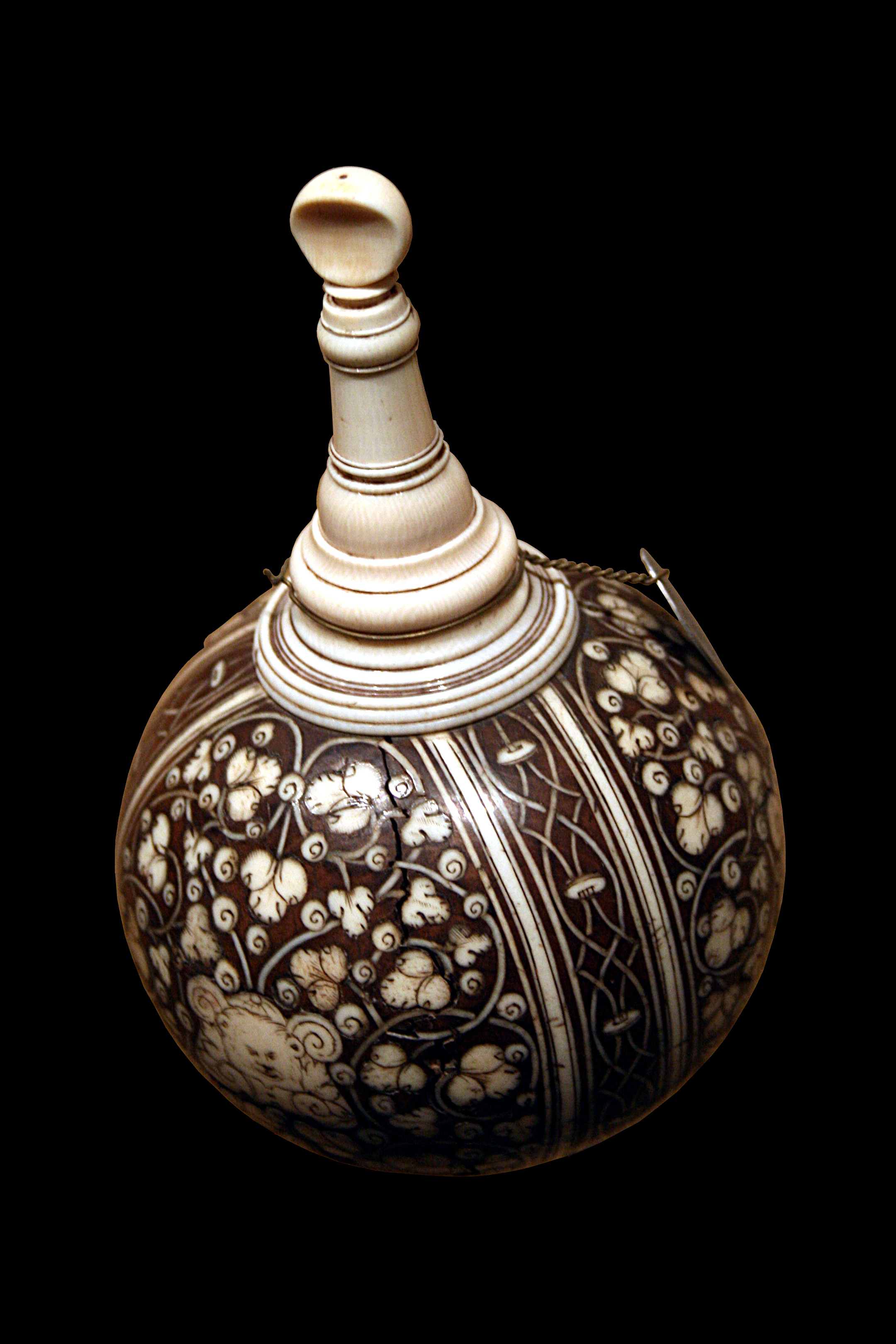 Ivory and wood priming flask inlaid with scrolls, plants and a zoomorphic ivory motif, made around 1600 in Germany, kept under inventory number M 2105 in the Musée de l'Armée in Paris.